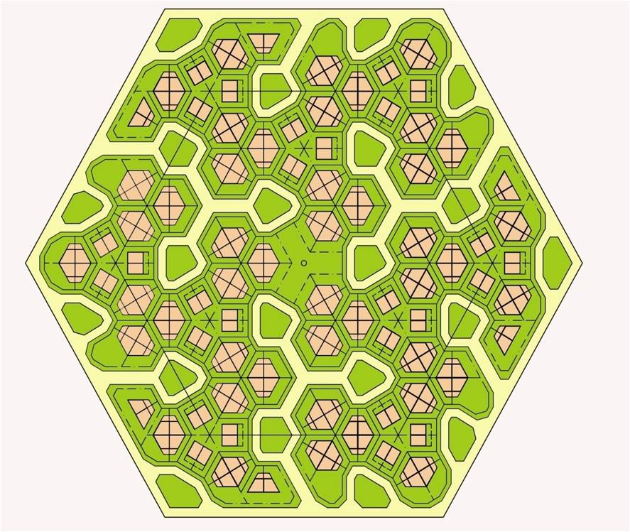 plan of a honeycomb neighbourhood